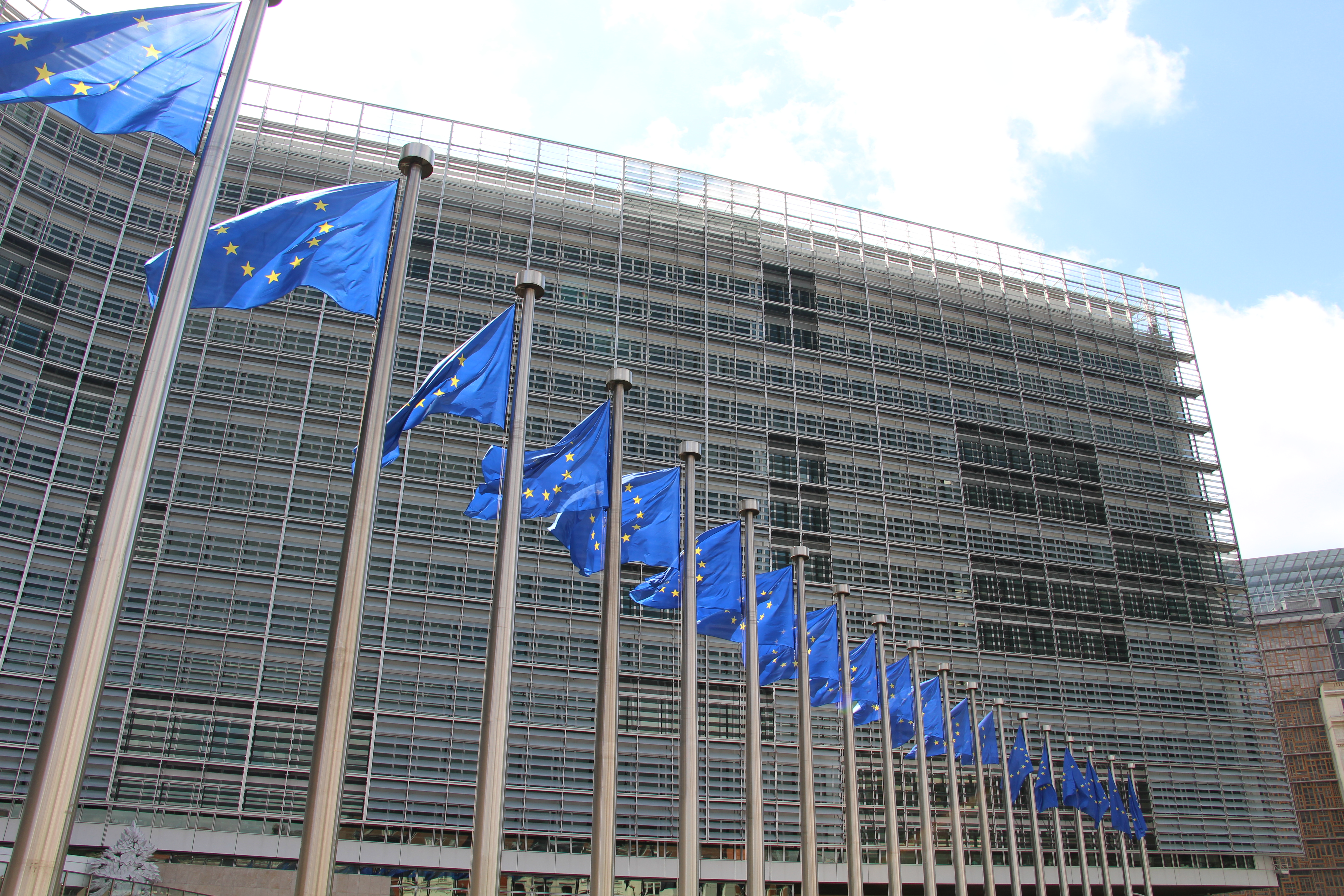 Quartier Européen / Boulevard Charlemagne/Rue de la Loi The Berlaymont houses the headquarters of the European Commission, which is the executive of the European Union. Arch. Lucien De Vestel, Jean Gilson, André and Jean Polak 1963-69. Asbestos removal and renovation were done between 1991 and 2004.